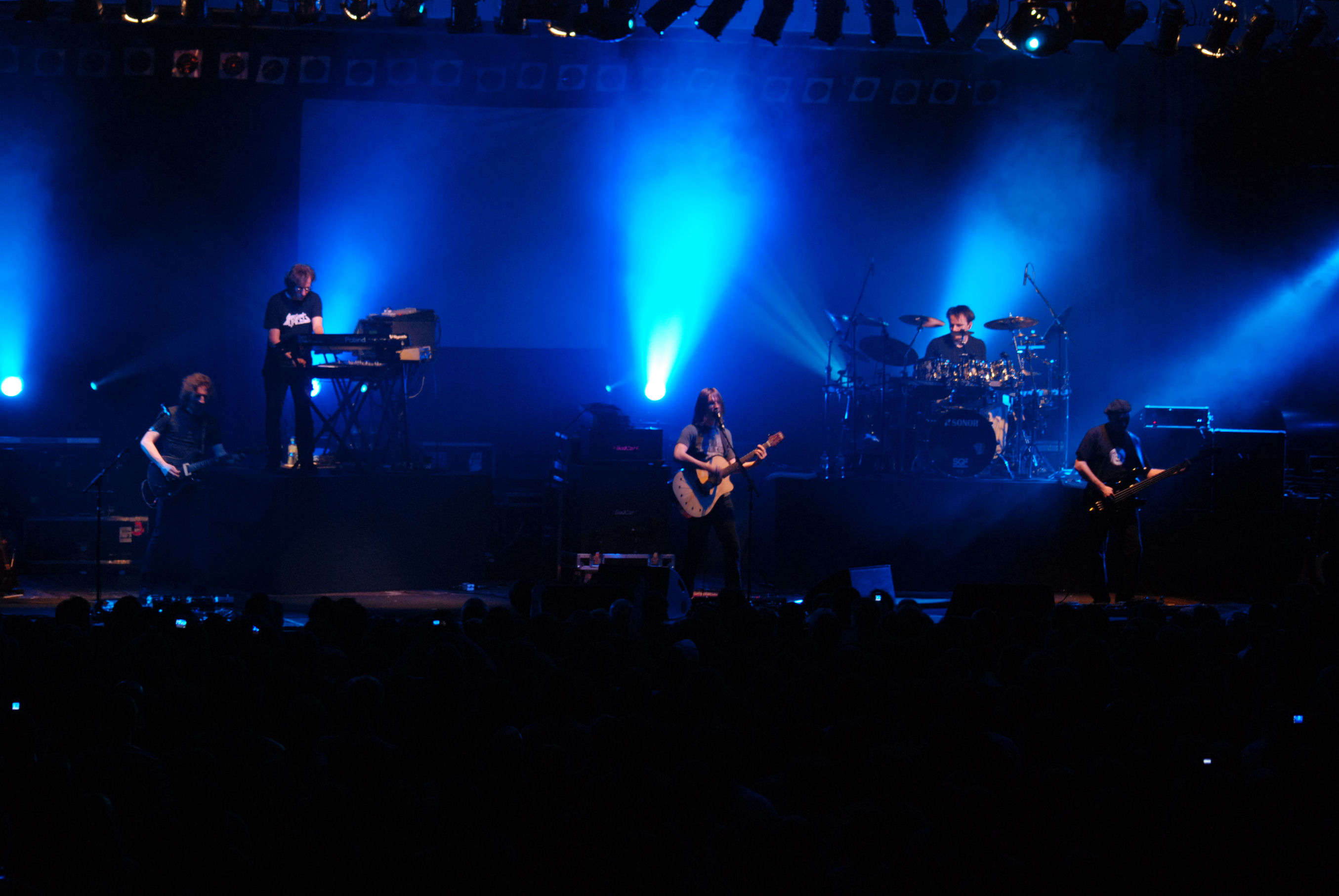 Porcupine Tree during concert in TS Wisła in Kraków To zdjęcie powstało dzięki współpracy z Rock-Servis